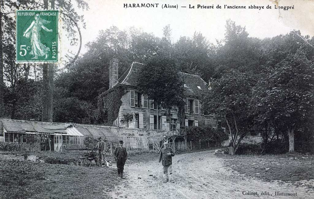 Postcard of France - Department of Aisne (02) - Haramont, priory of the old abbey - Year 1912